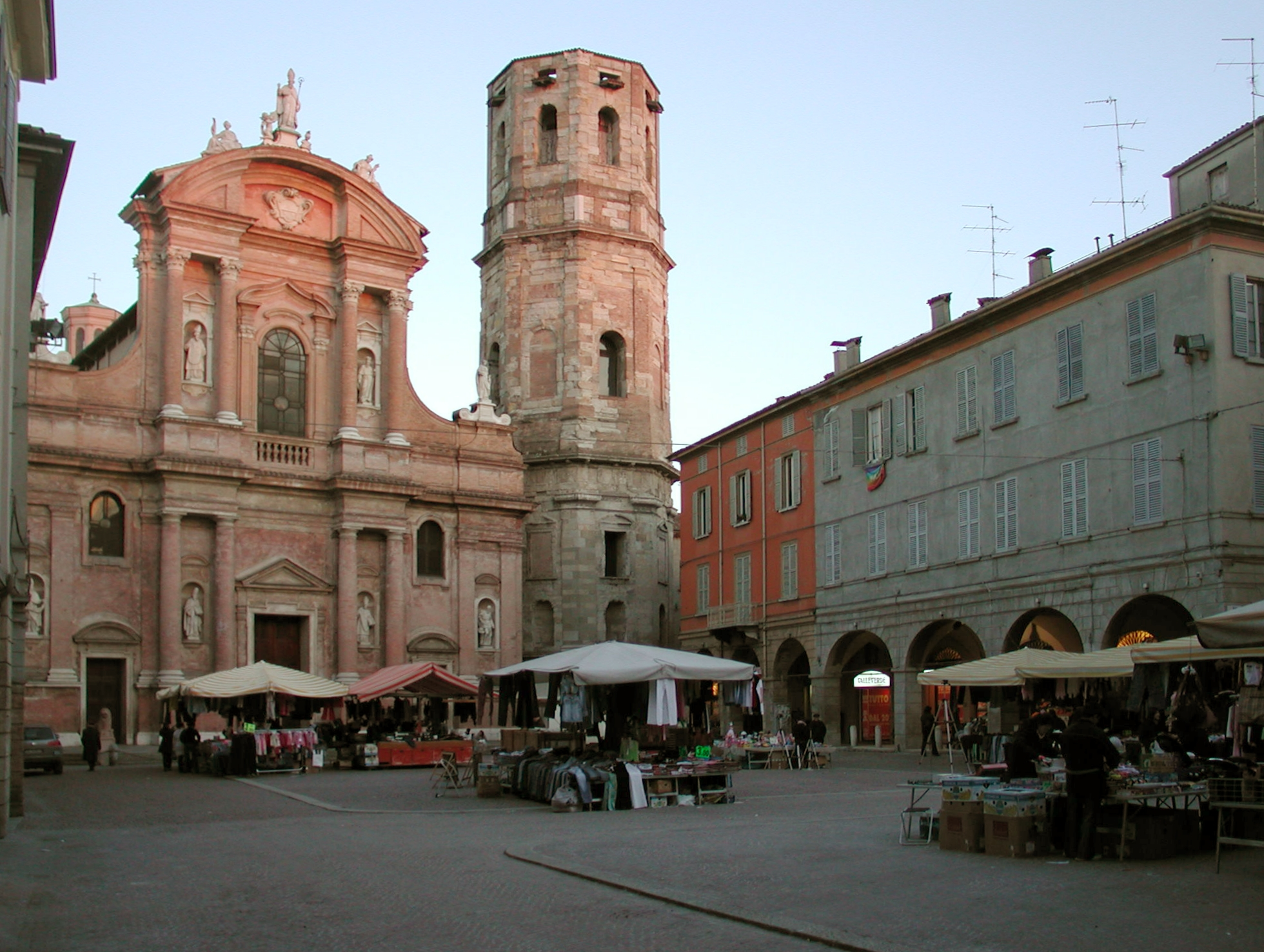 Palace San Prospero of Emilia region, Italy.